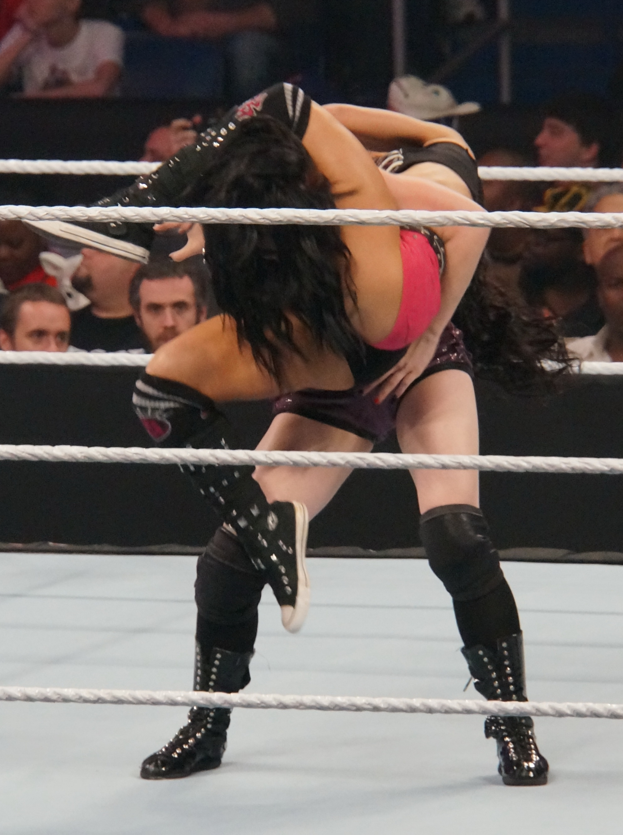 AJ attempts to lock in her trademark submission maneuver - the Black Widow - in order to secure a victory over Paige. Originally taken 4/7, cropped for focus.